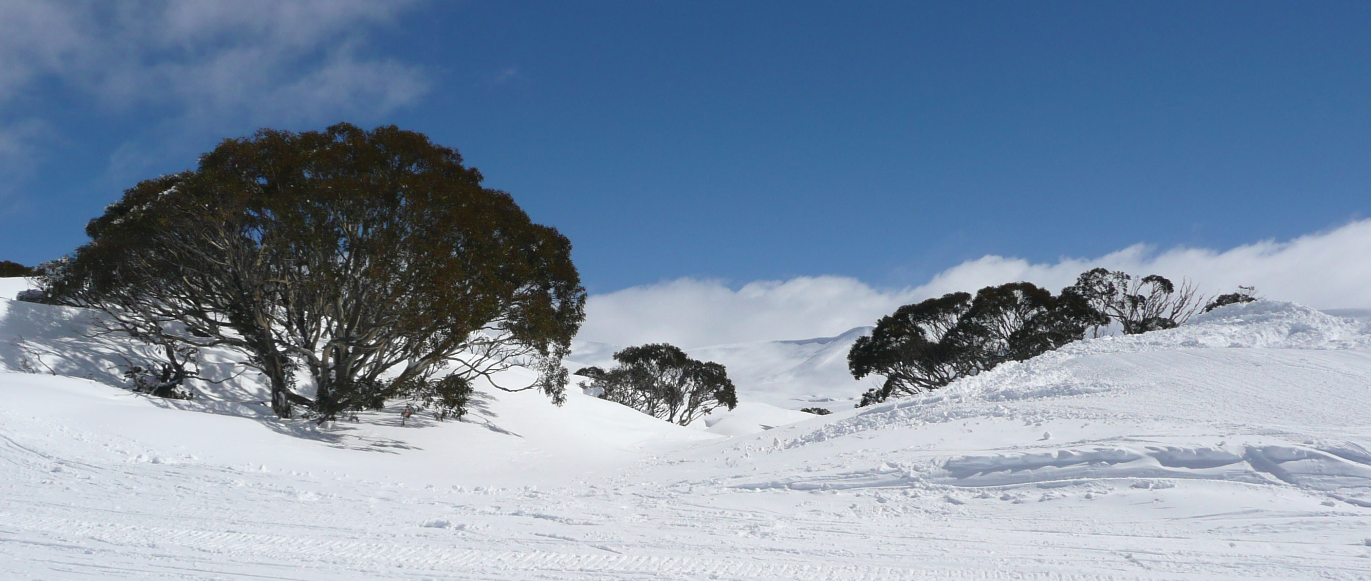 View through Charlotte Pass in winter towards the main range on 13 August 2008.